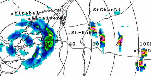 Radar echos, in this case from a series of small hills in the Montreal region called "Monteregiennes". The central stronger part of the returns are from the main lobe but the decreasing intensity in arc on each side are from secondary lobes which are mistakenly placed at the position where the main lobe is when those returns come back to the radar.